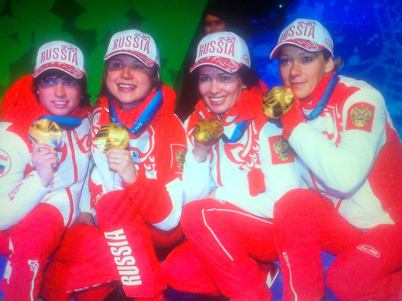 Russias biathlon gold medal